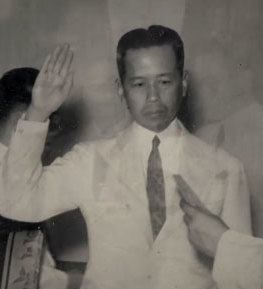 Swearing of José Abad Santos